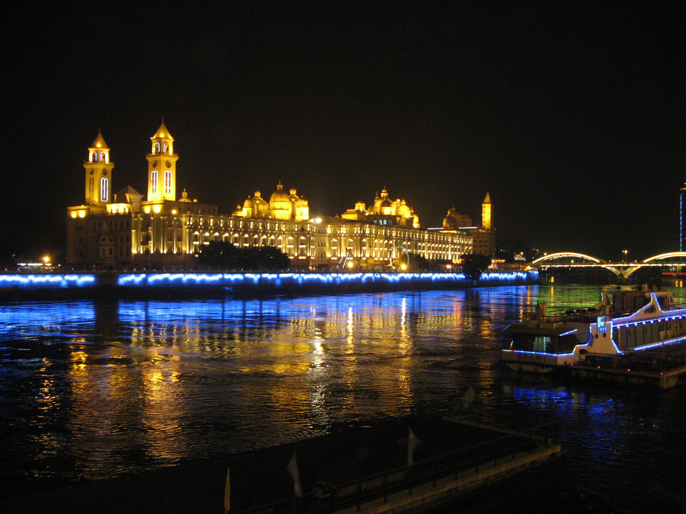 Fuzhou Middle Island and the River Min